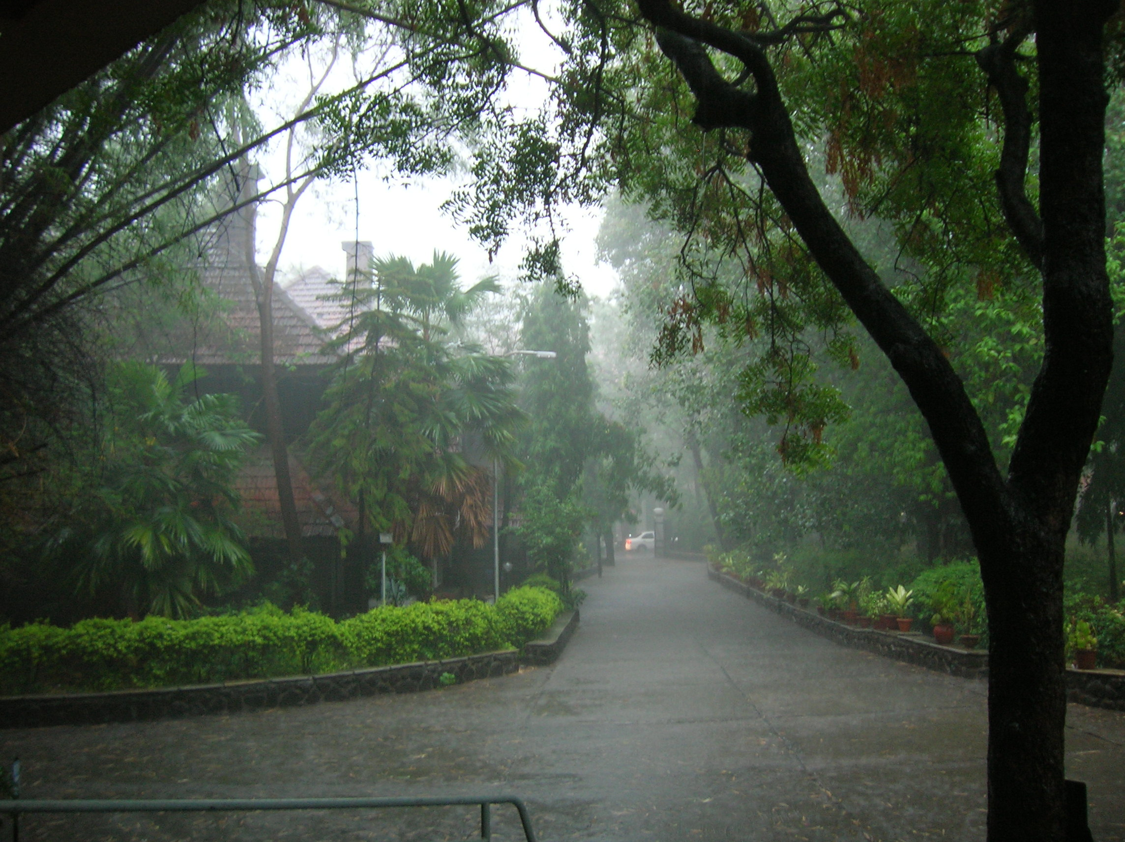 Pune - National Film Archive of India, old building, monsoon June 2010.